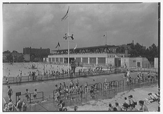 Title: Betsy Head Play Center, Hopkinson and Livonia Ave., Brooklyn, New York. Abstract/medium: Gottscho-Schleisner Collection (Library of Congress) Physical description: 1 negative